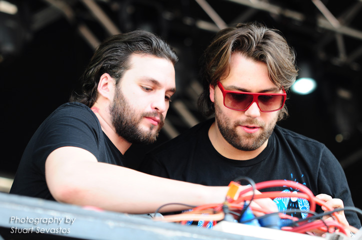 Steve Angello & Sebastian Ingrosso @ Wellington Square (1/3/2009)